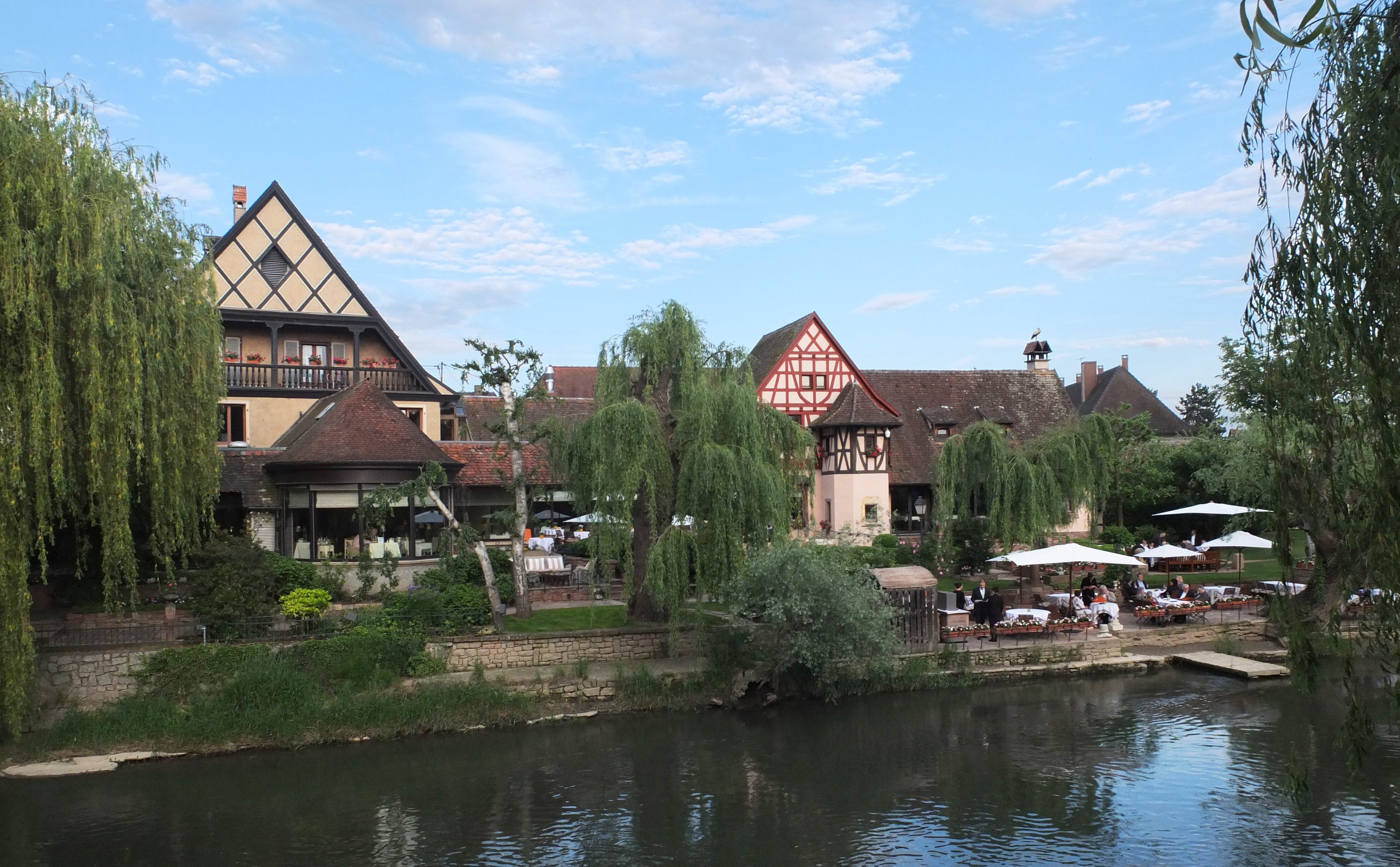 Famous 3-Star restaurant "Auberge de l'Ill", Illhaeusern, France (view west).